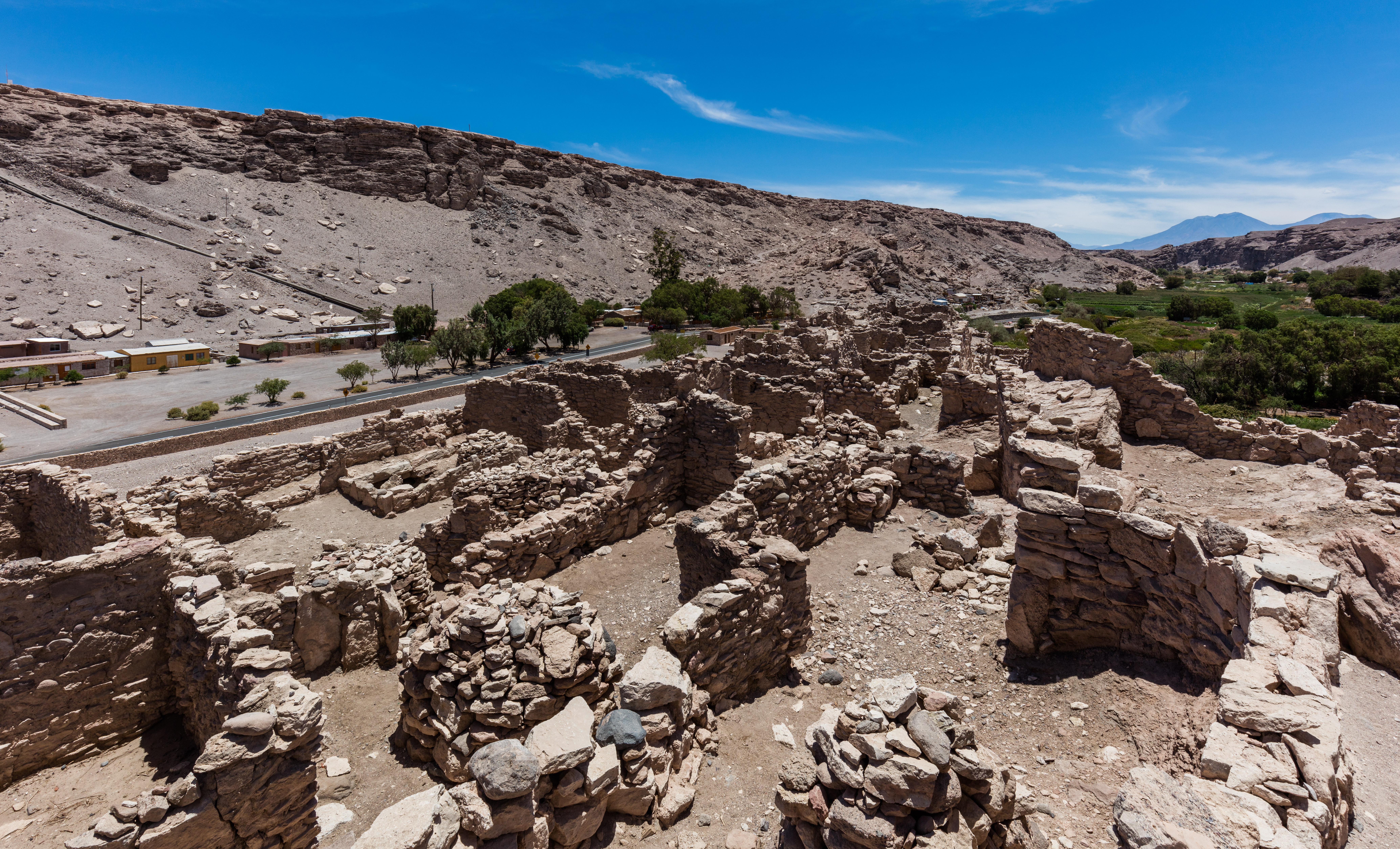 Pucará of Lasana, Chile